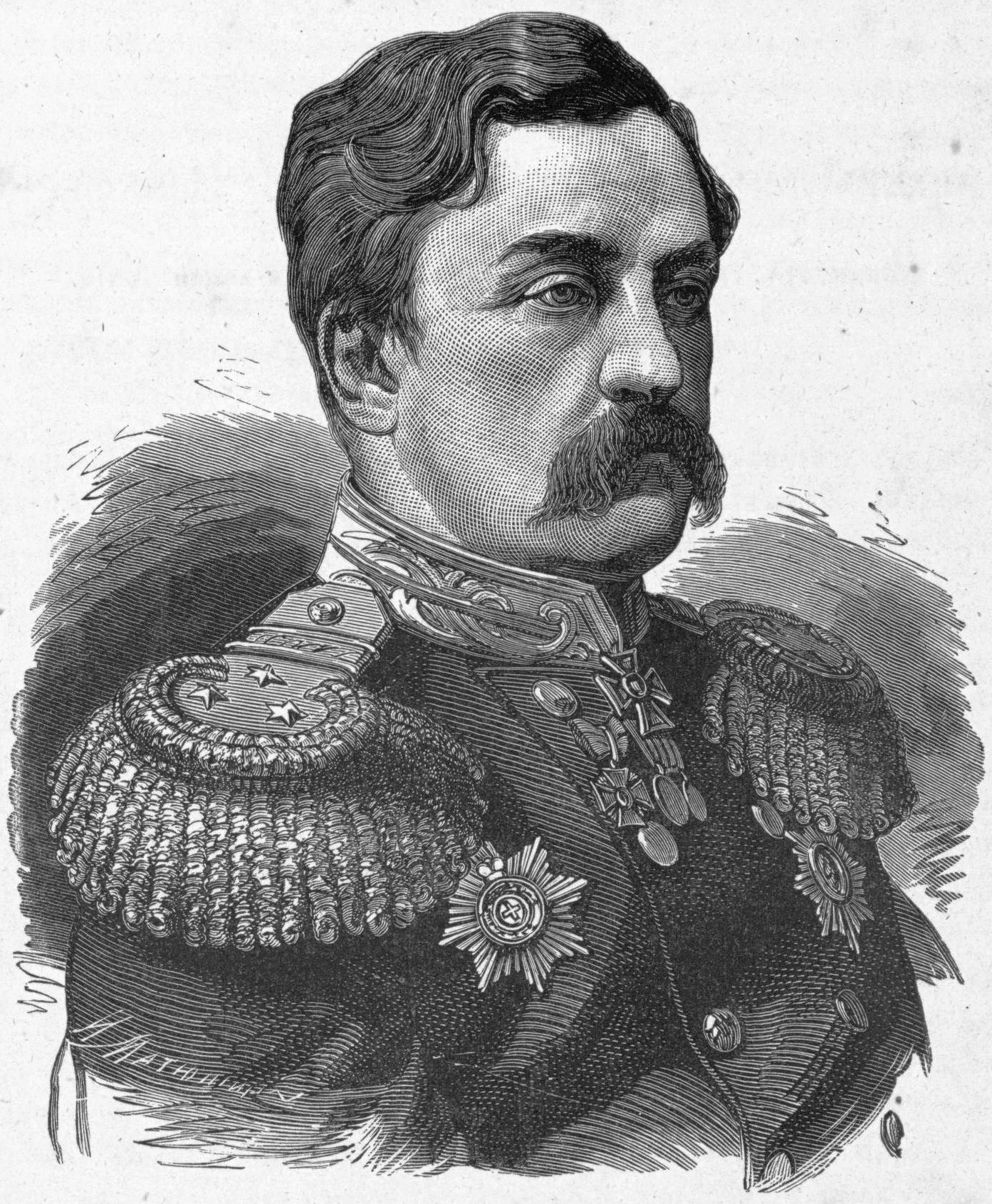 Shakhovskoy, Alexey Ivanovich (1821-1900) miltary ran: «General of the infantry» ran insignia of this file: epaulets and stars «Genera-leytenant».